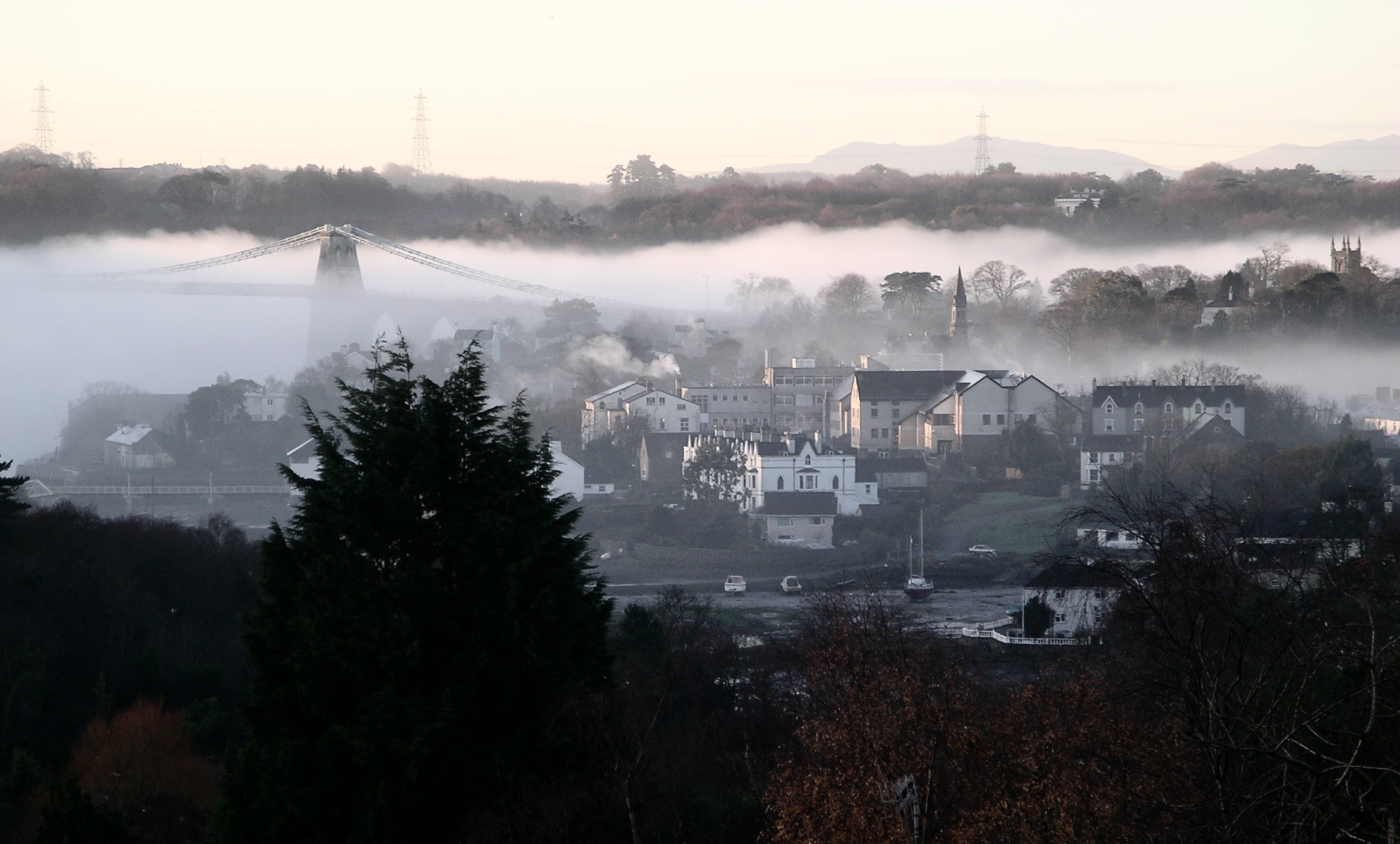 Menai Bridge in mist November 2004 Author: Andrew Dixon. Location: Menai Bridge, Anglesey Source: Personal photograph taken by Author Description: Menai Bridge from Glyn Garth in early morning mist, November en:2004 Technical data: Pentax Optio555 digital camera. 1/20 sec @ f2.8